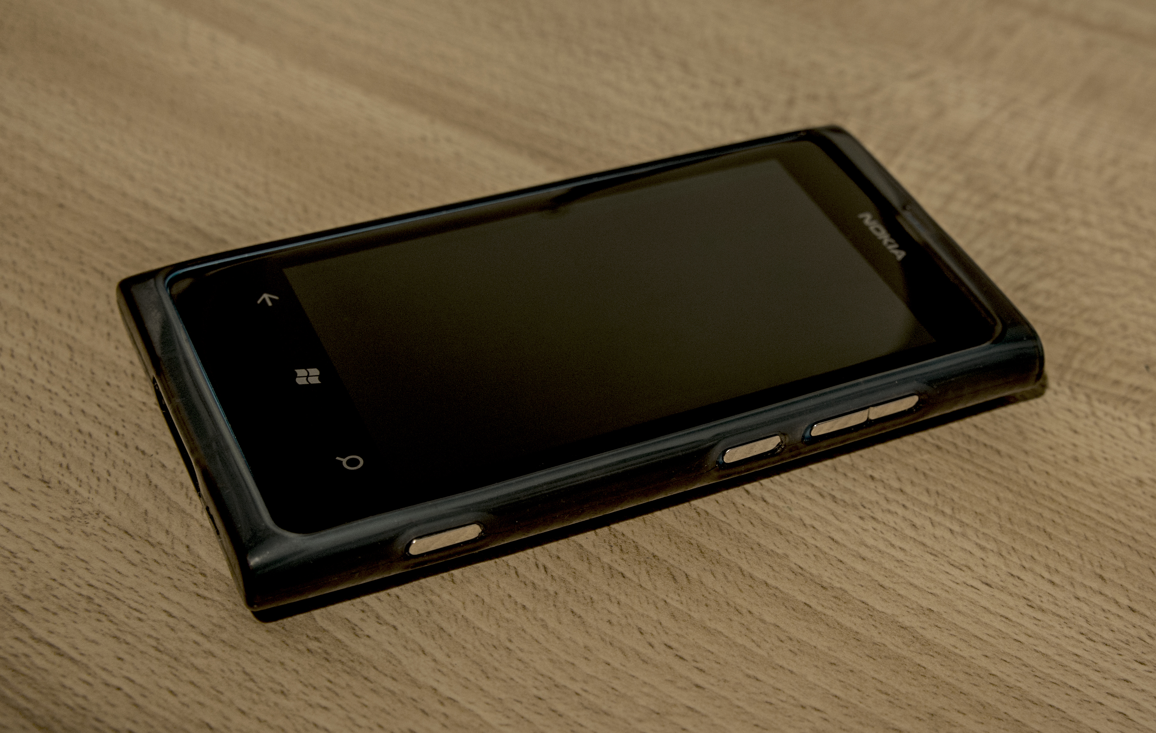 Nokia Lumia 800 with a protective shell